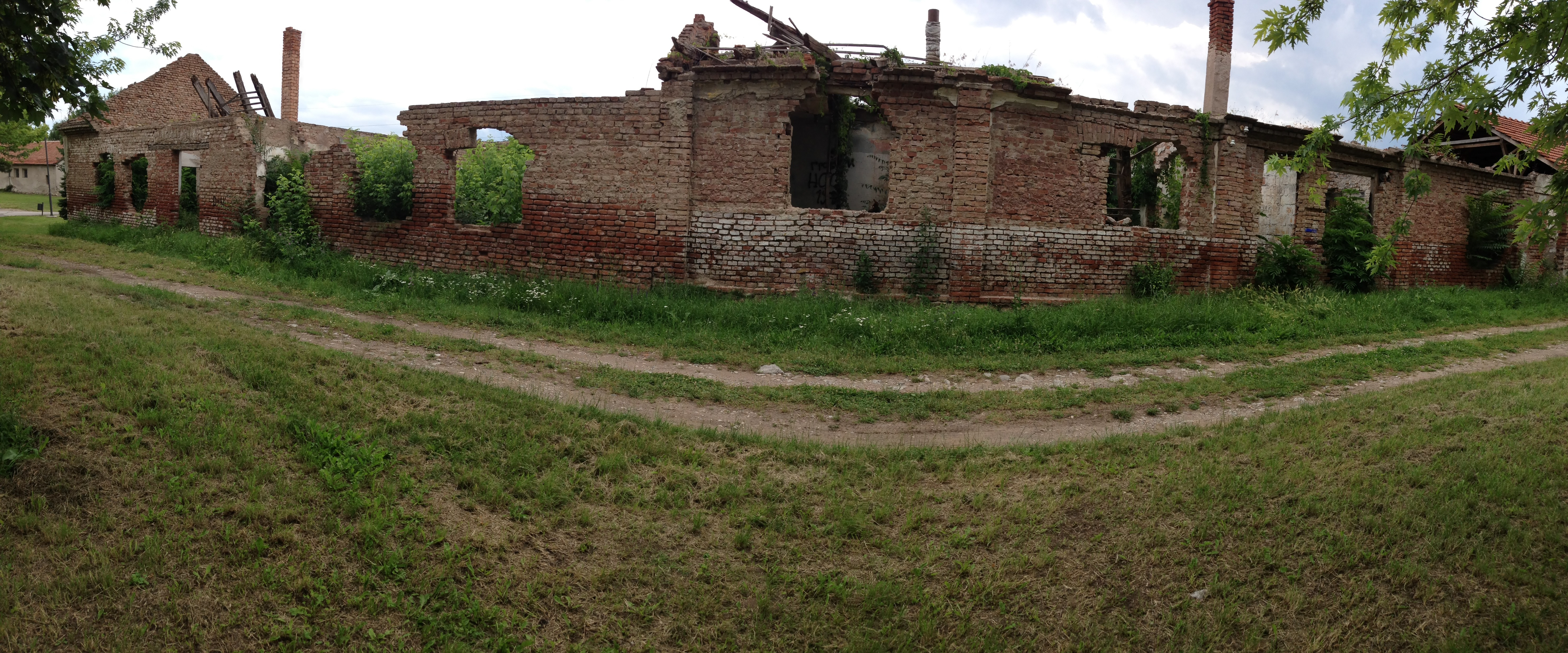 Colony "Art to go jazzy", Niš, Serbia.